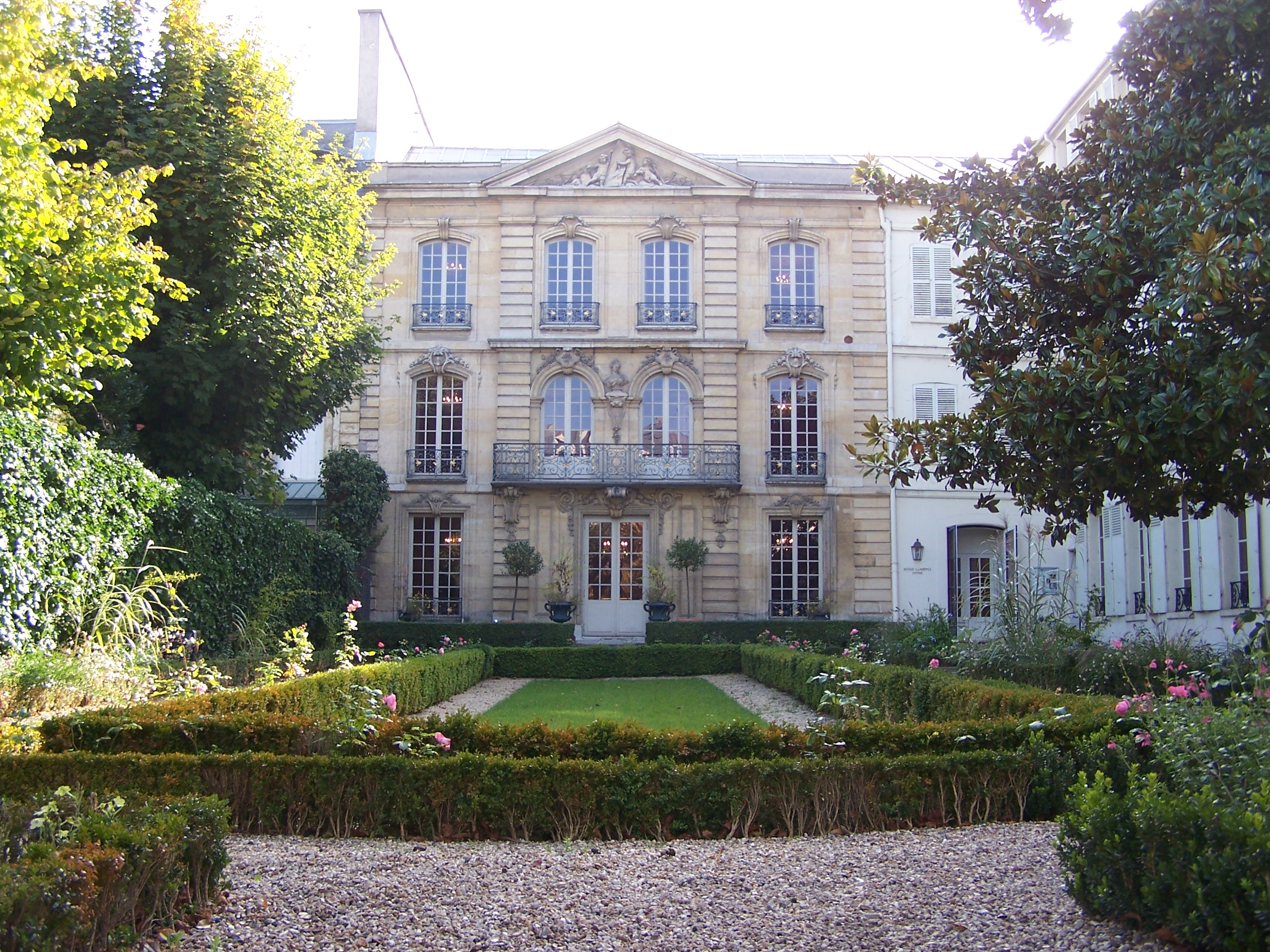 Élie Blanchard, architecte: Museum Lambinet, 18th century, in Versailles (Yvelines, France)